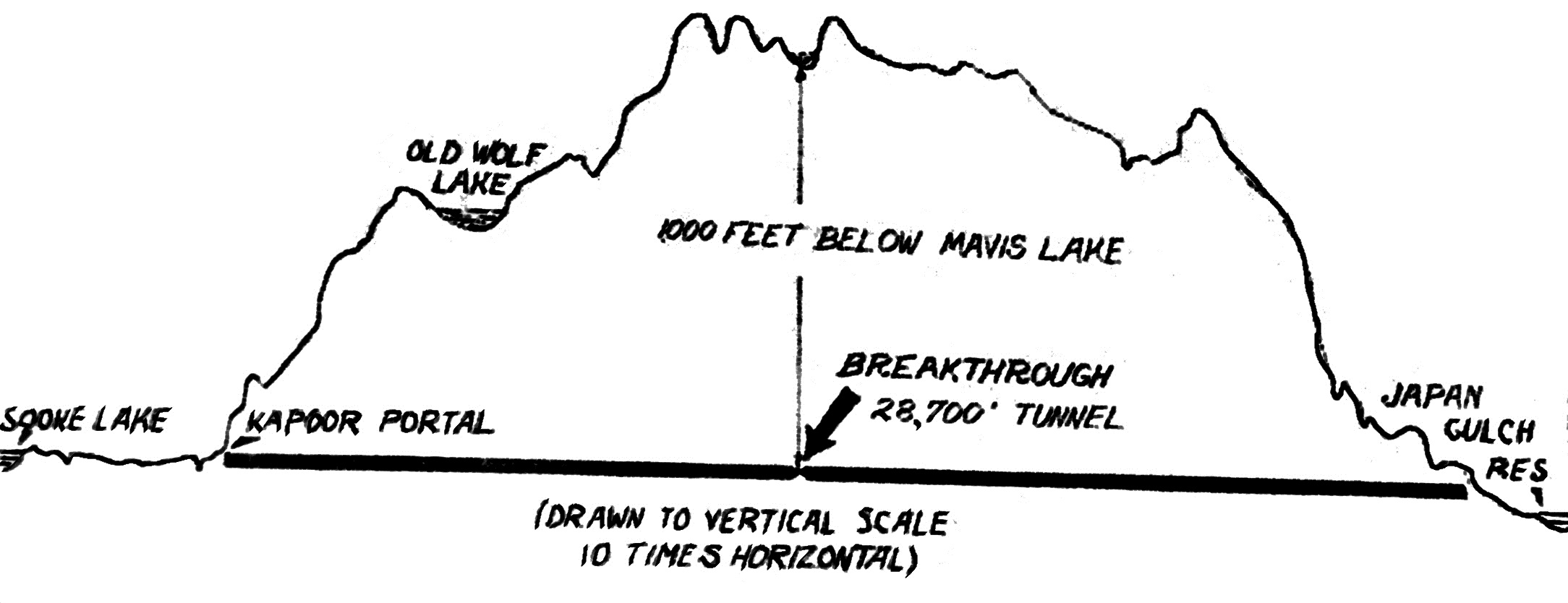 The Kapoor Tunnel passes under Mavis and Jack Lakes.